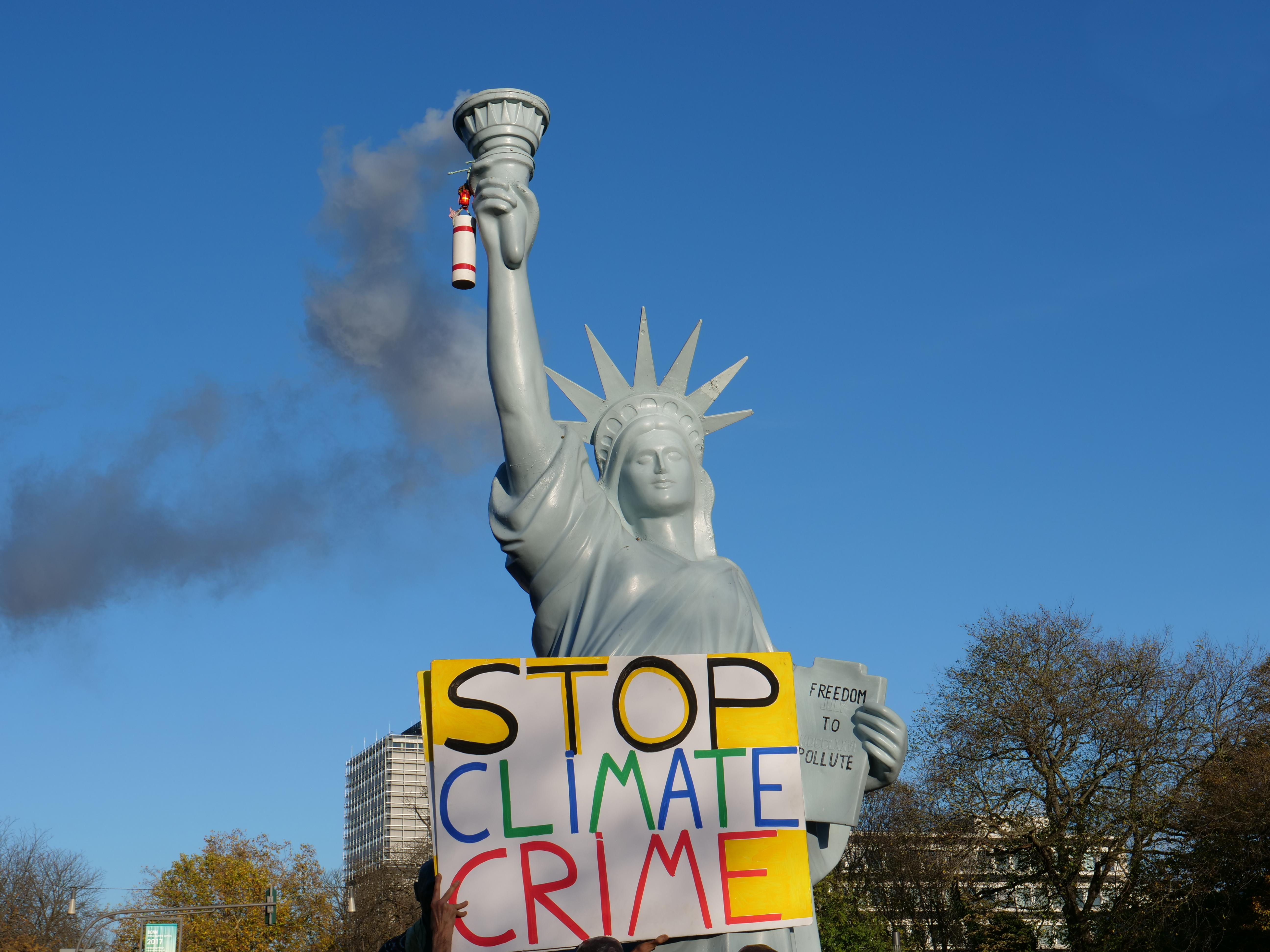 Statue of Liberty with smoky flame and protest text 'Stop Climate Crime', demonstration in Bonn, a few days before 2017 United Nations Climate Change Conference.